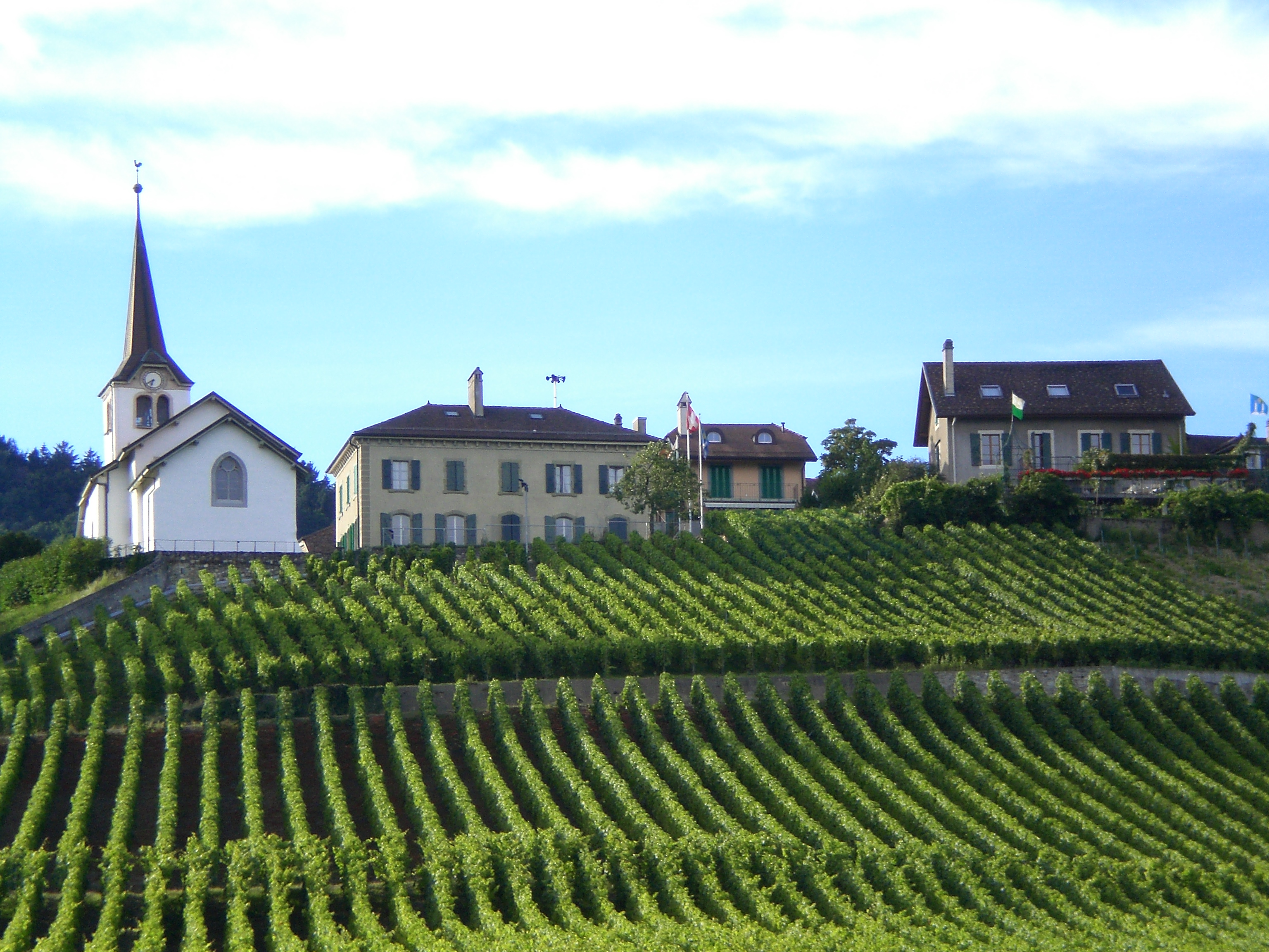 View on Féchy-Dessus from the village of Féchy